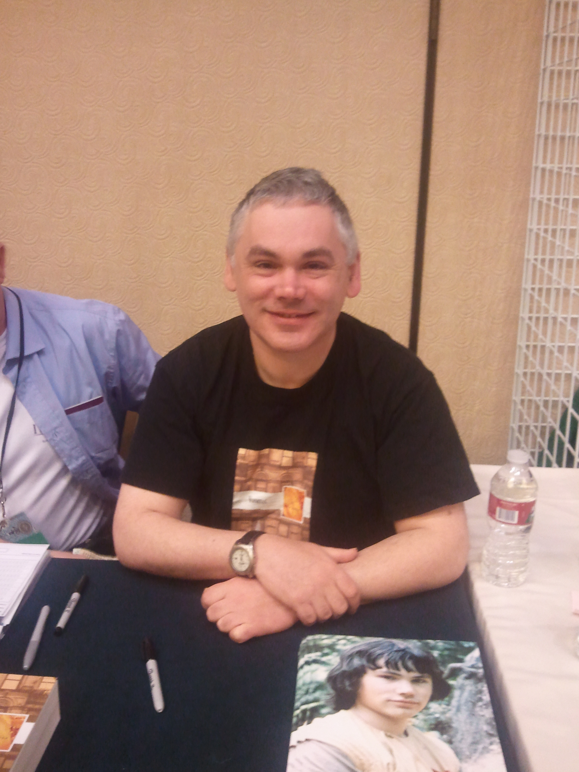 Matthew Waterhouse signing autographs at the 2011 Gallifrey convention in Los Angeles.Wilybadger (talk) 19:44, 10 April 2011 (UTC)